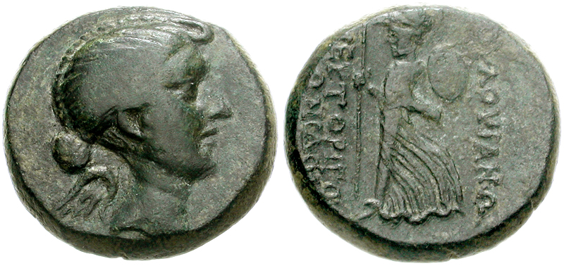 PHRYGIA, Eumeneia (as Fulvia). Fulvia, first wife of Mark Antony. Circa 41-40 BC. Æ 18mm (7.82 g, 12h). Zmertorix, the son of Philonides, magistrate. Bust of Fulvia (as Nike) right / Athena standing left, holding shield and spear; [Z]MERTOR[IGOS/FILWNIDOU] in two lines in left field. RPC I 3139; SNG Copenhagen -. Good VF, black-green patina with beige overtones.